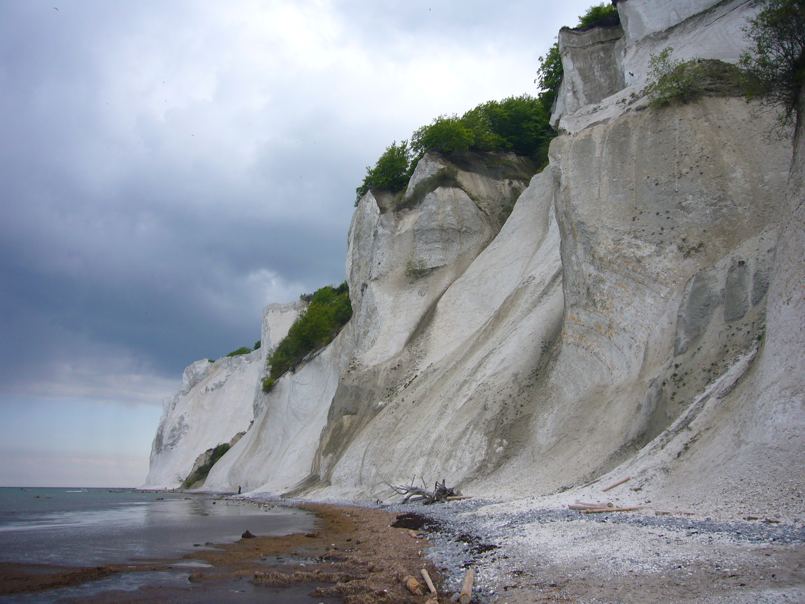 The chalk cliff of Møn, Denmark. Note the adult human in the background, utterly dwarfed by the enormous cliffs.